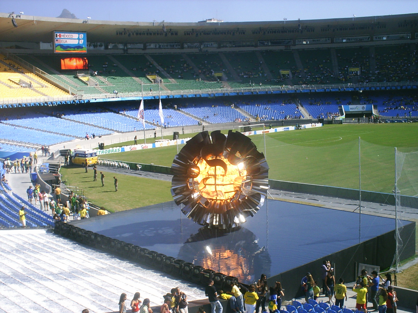 The Pan American Flame at the Maracanã Stadium, at midday, during the 2007 Pan American Games in Rio de Janeiro